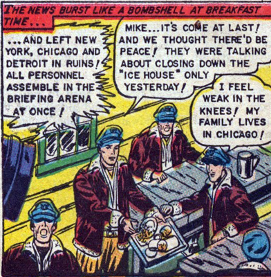 Comic panel showing both spiked, on left, and normal speech balloons, on right. Losslessly cropped from Atomic War! #1, Page 28, November, 1952 (original image)